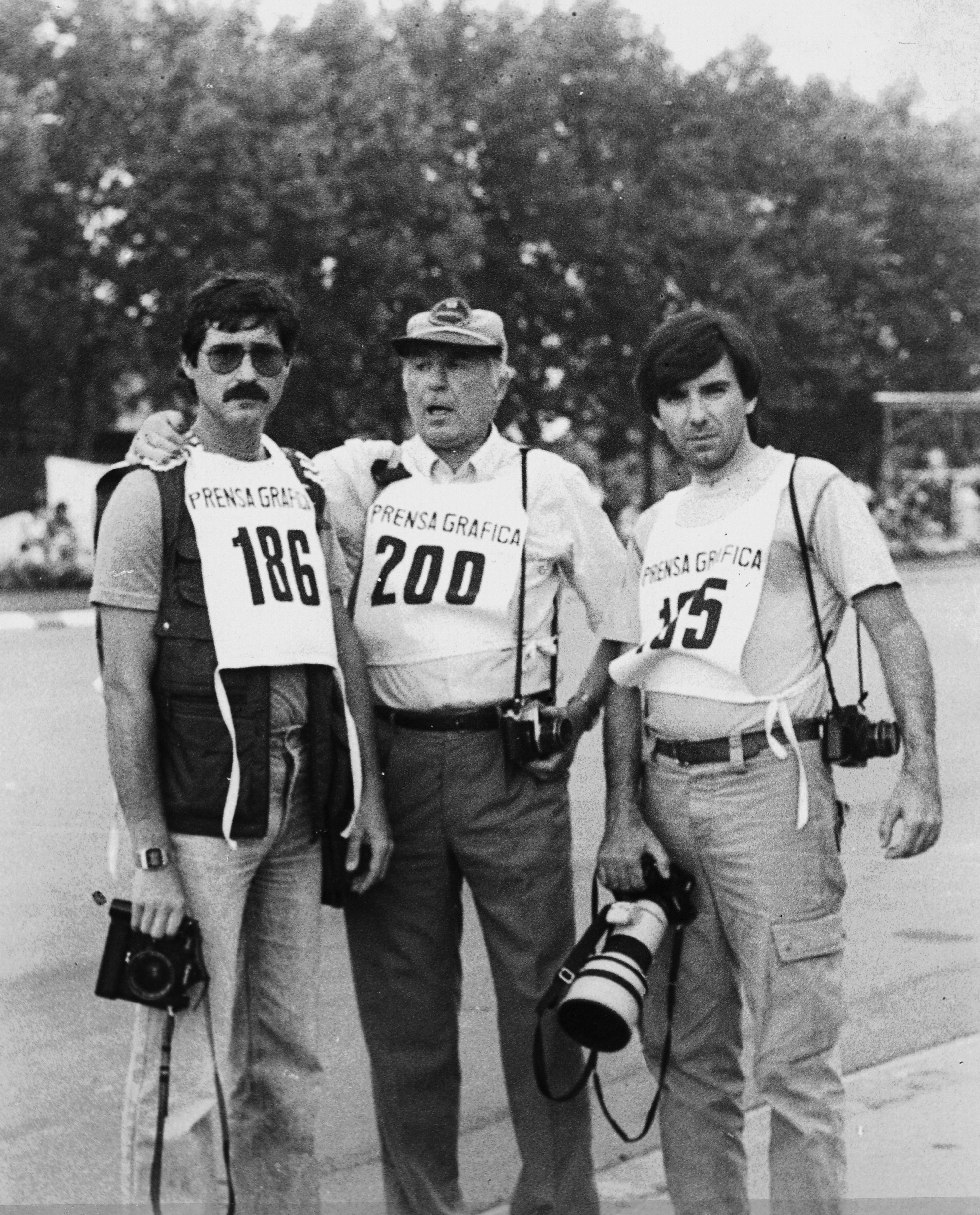 Tres generaciones de periodistas gráficos